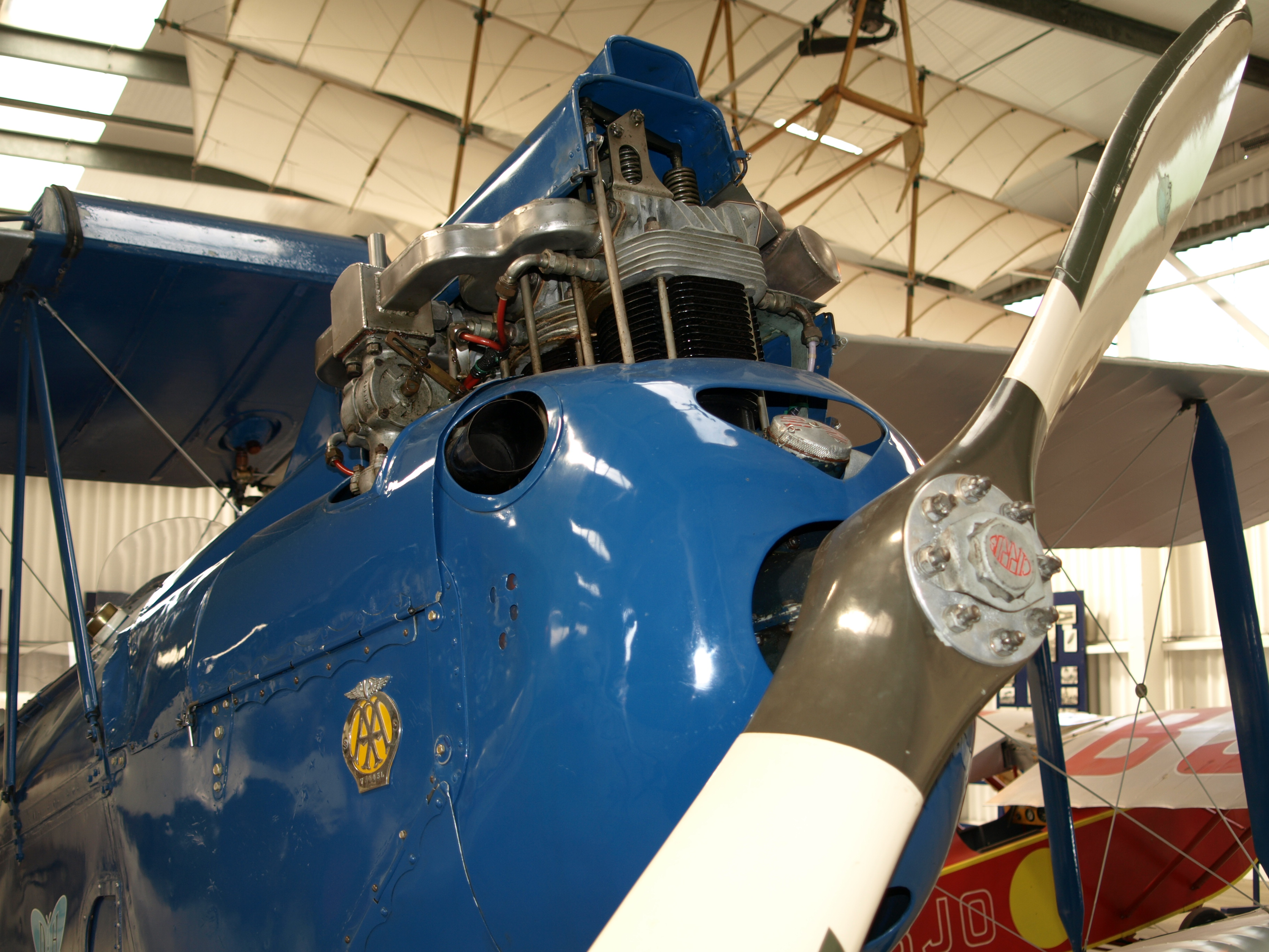 Cirrus III aircraft engine fitted to DH.60 Moth G-EBLV at the Shuttleworth Collection